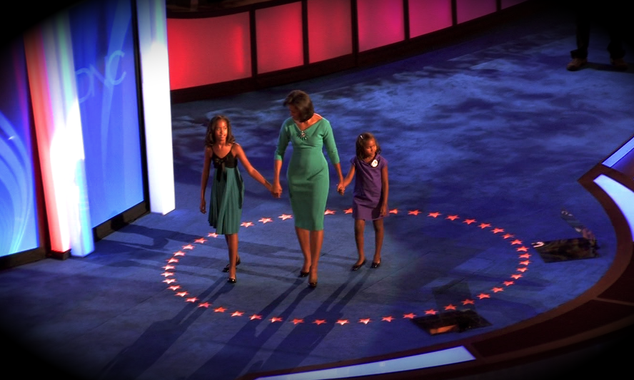 Michelle Obama with daughters at Democratic National Convention